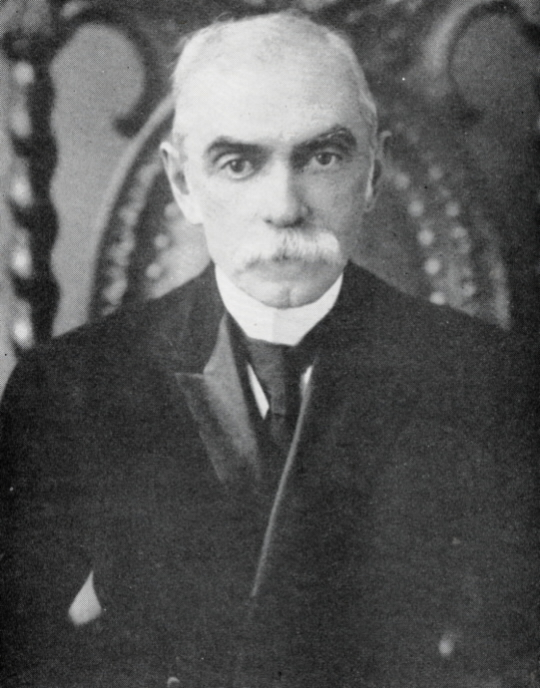 Portrait of Lieutenant Governor of Virginia James Taylor Ellyson